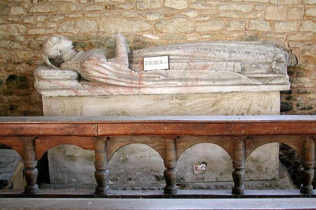 St Mary the Virgin, Leighton Bromswold, Cambridgeshire - Tomb chest With effigy.